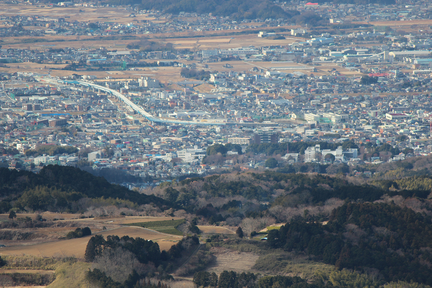 Downtown of Kannnami as seen from the east in Shizuoka Prefecture. Japan